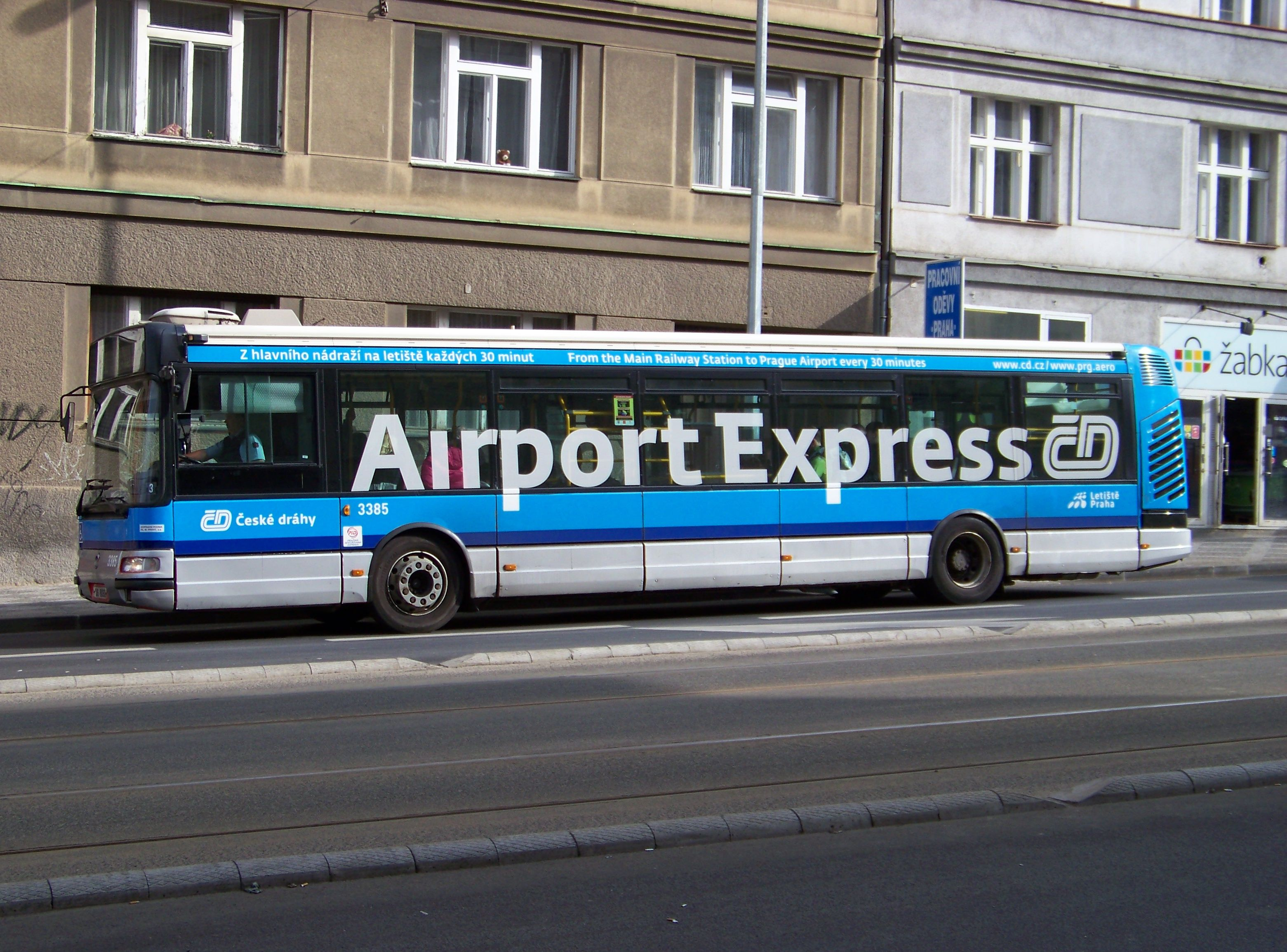 Prague-Dejvice, Czech Republic. Svatovítská street, a bus of the line AE (Airport Express). - Google Maps - Google Earth